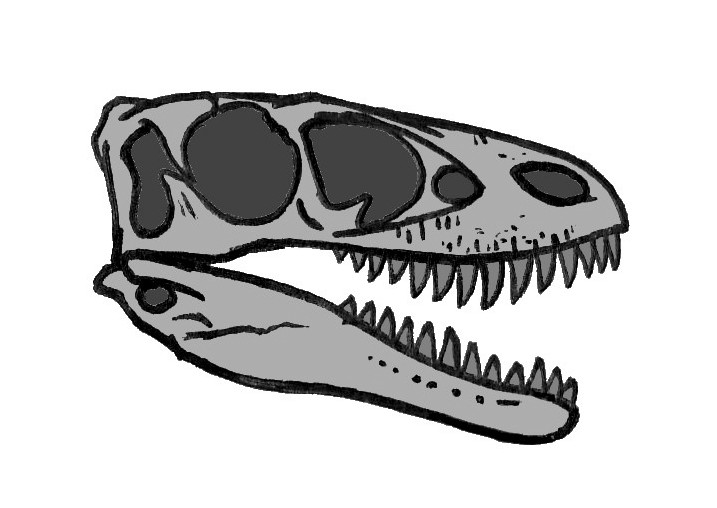 Illustration of the tyrannosauroid dinosaur Raptorex kriegsteini.